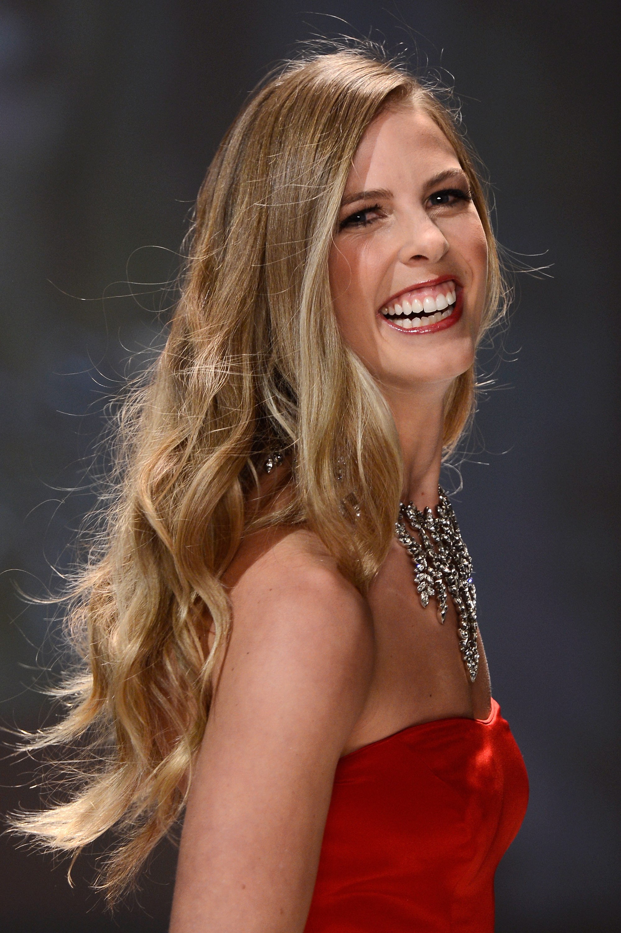 Torah Bright in Nicole Miller